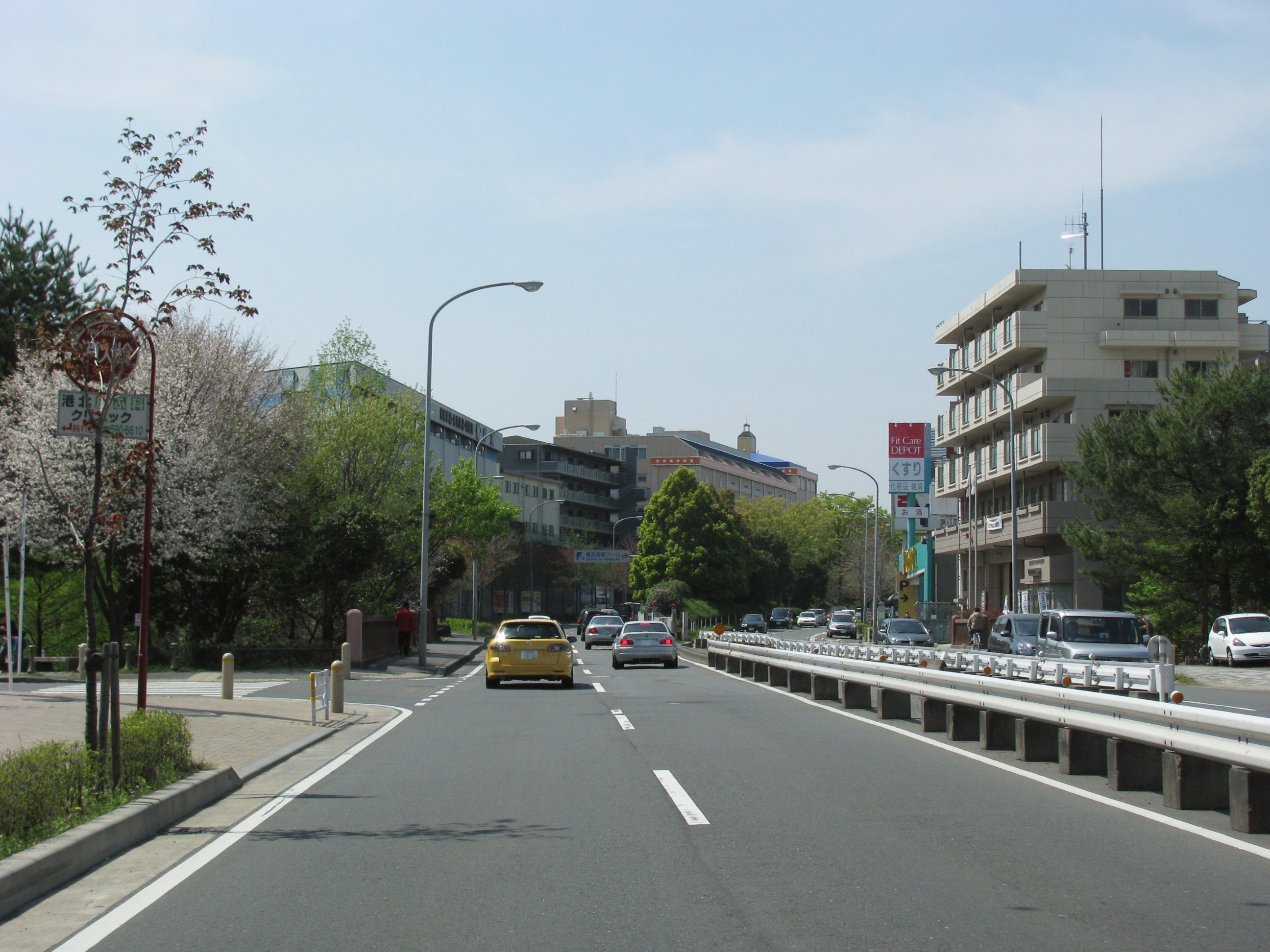 The Kanagawa Prefectural Route 102. This located is in Tsuzuki, Yokohama, Kanagawa Prefecture, Japan.